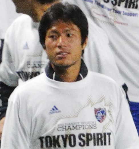 Kohei Shimoda from FC Tokyo